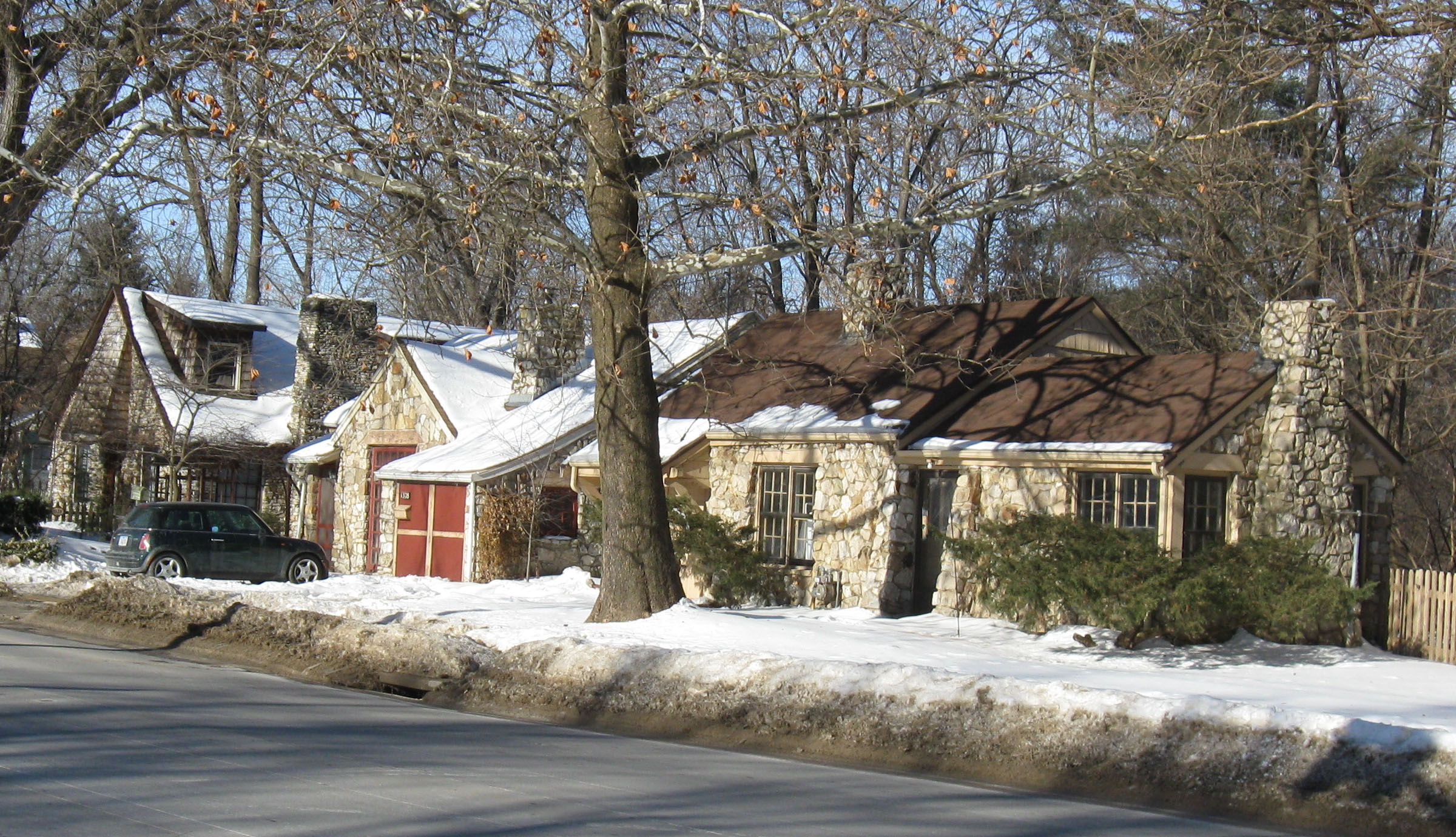 Moffatt cottages, Iowa City.